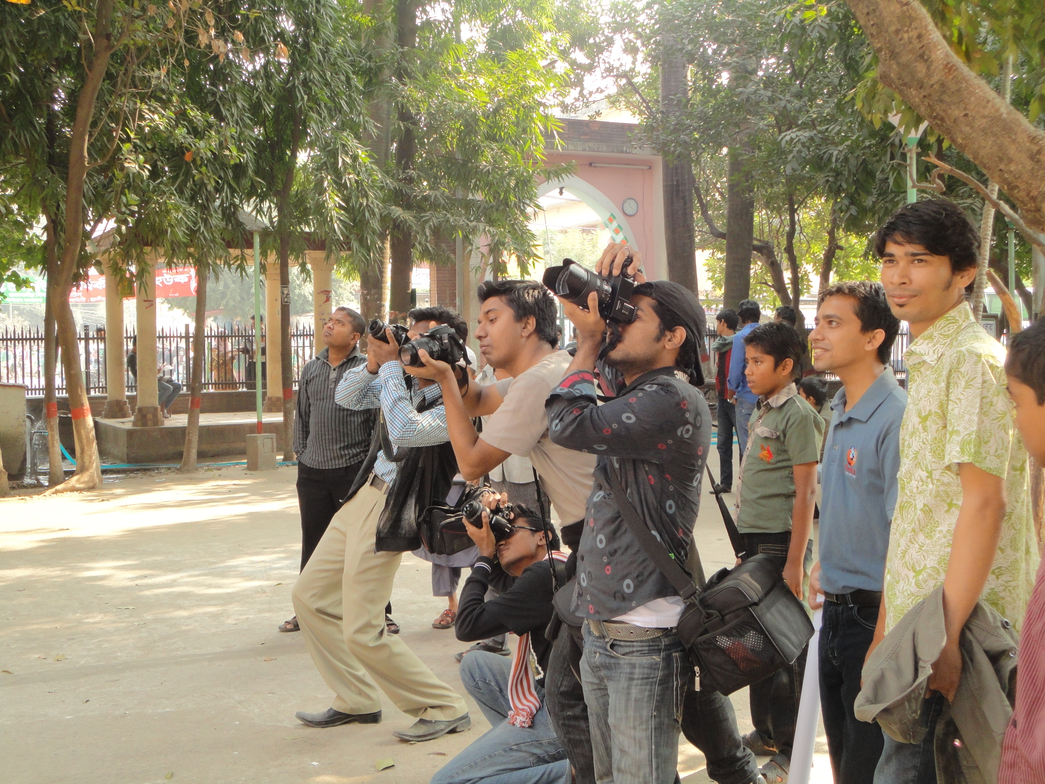 Photo walk for Wikipedia at Old Dhaka, Bangladesh on 31 December 2010.